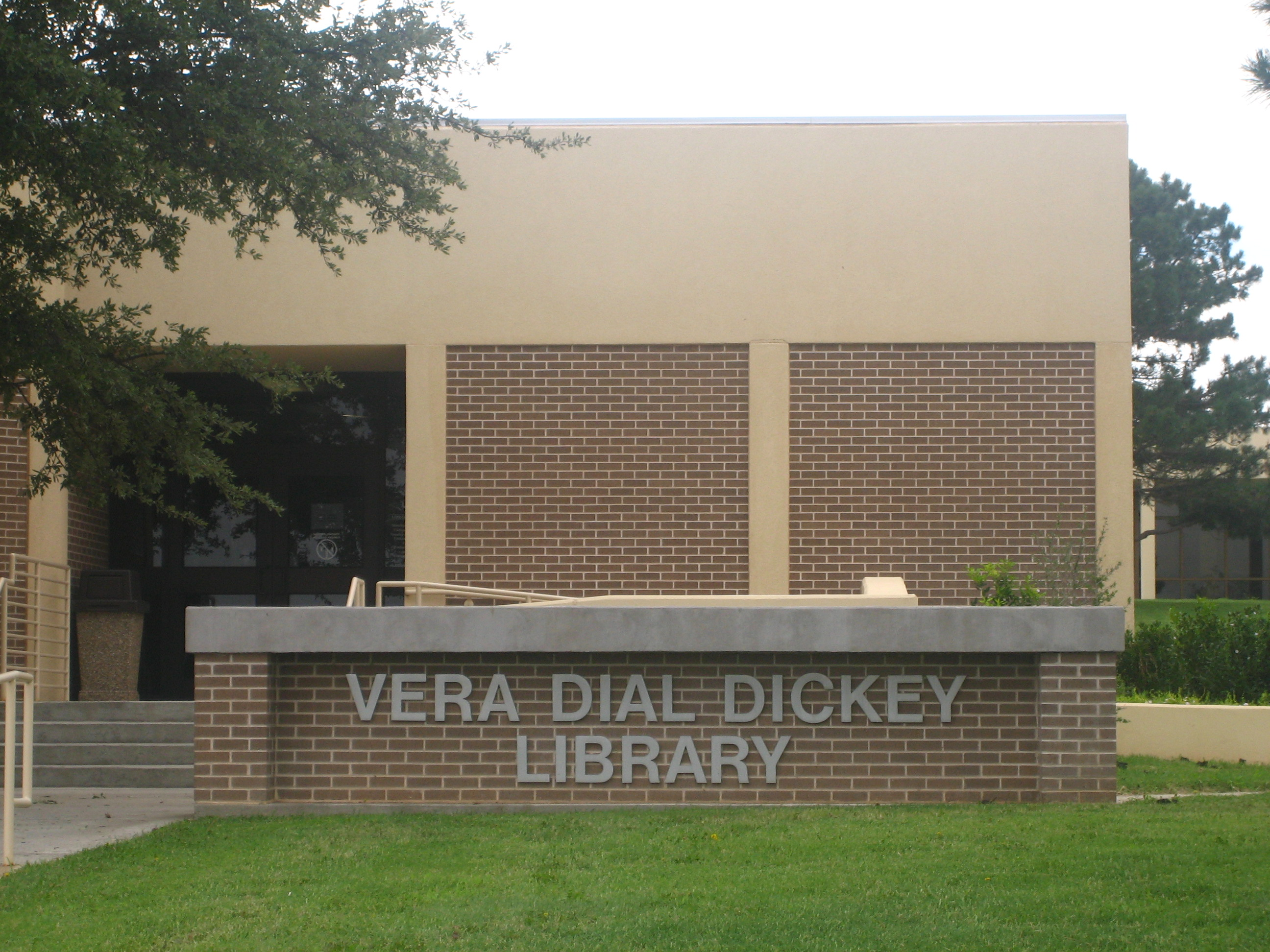 The Vera Dial Dickey Library of Clarendon College. Named after a resident of nearby Memphis, Texas, the library is on the college's main campus in Clarendon, Texas.